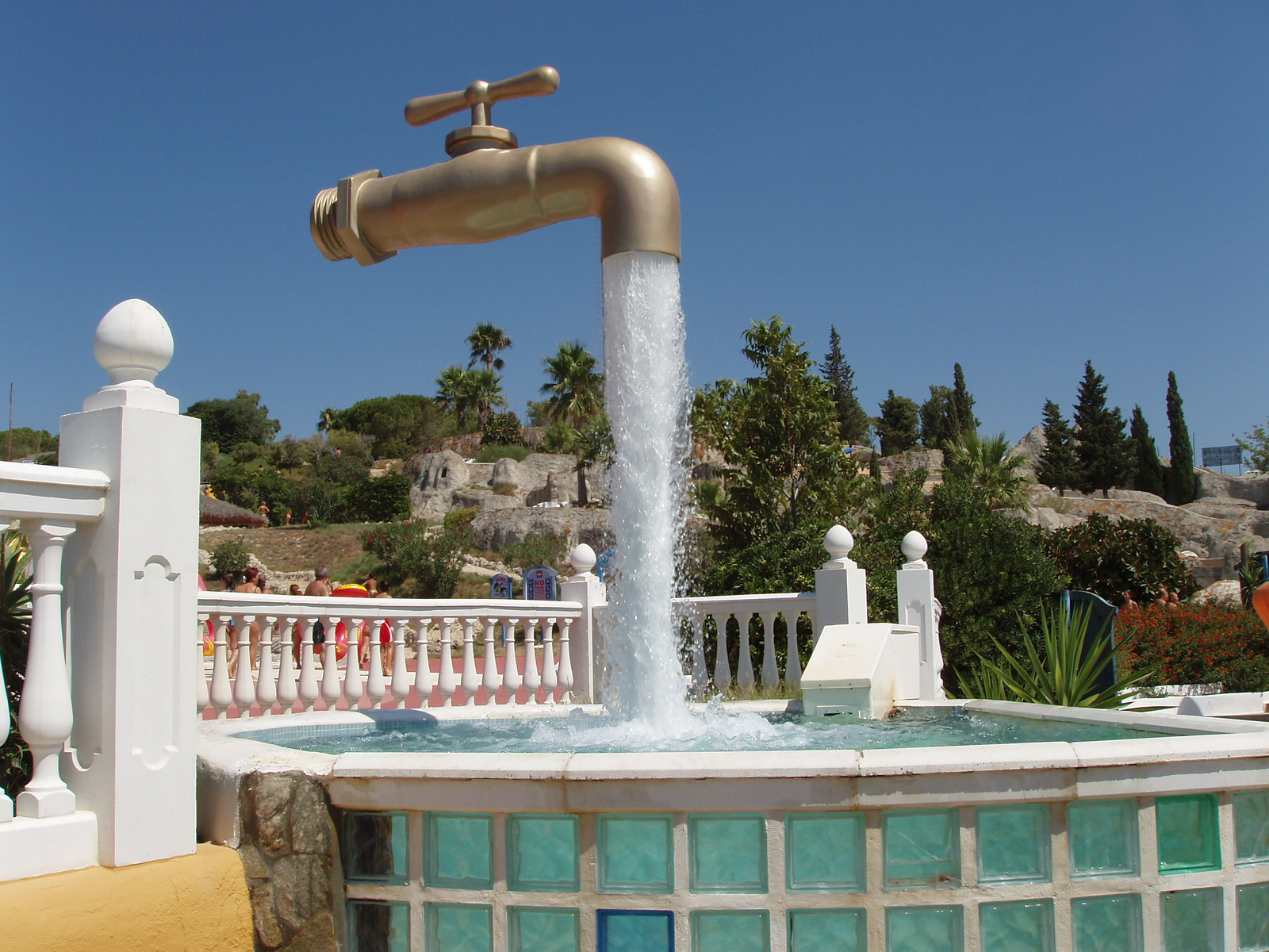 Magic tap, which appears to float in the sky with an endless supply of water. In actuality, there is a pipe hidden in the stream of water.